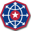 Criminal Investigation Command SSI